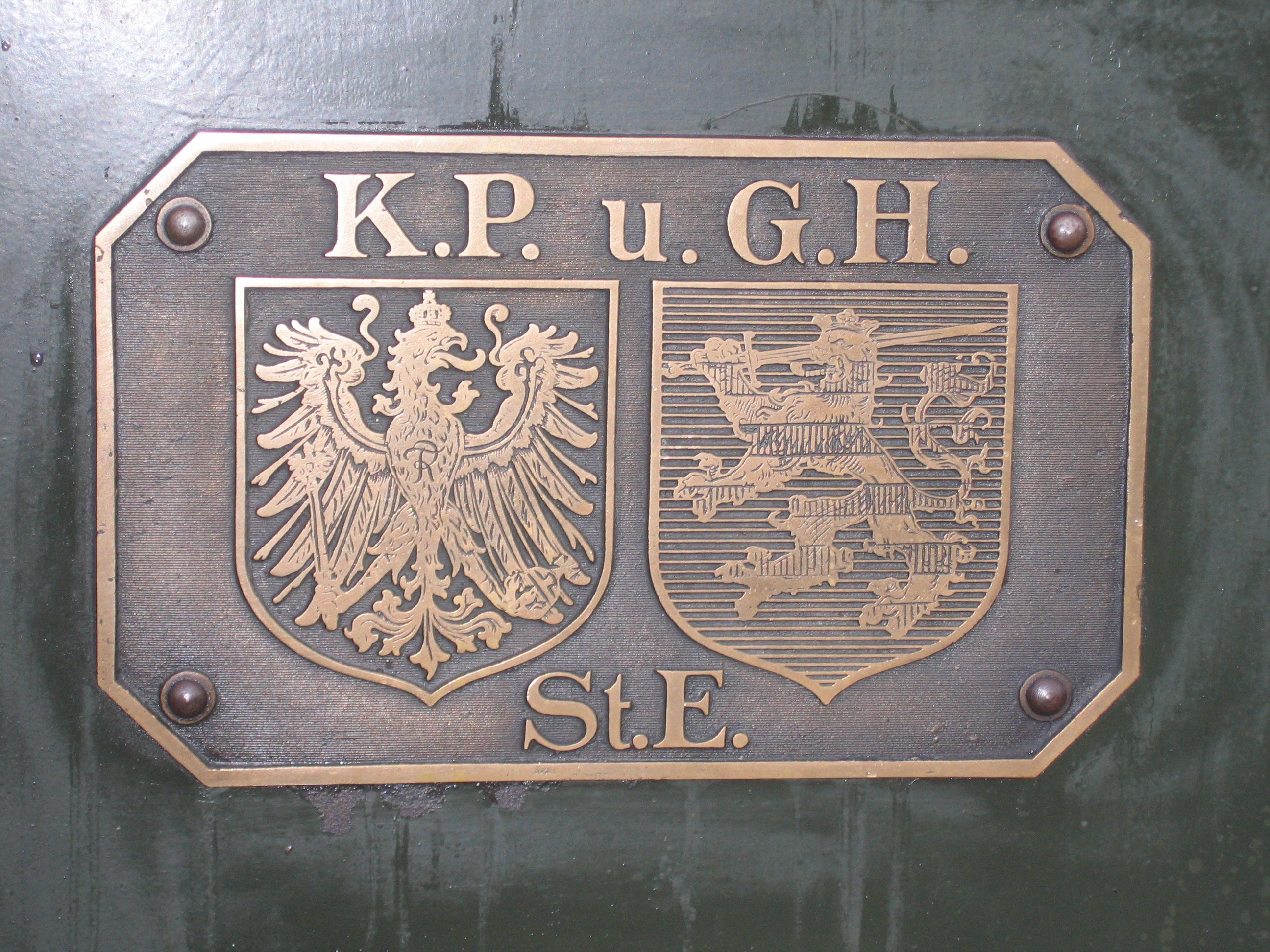 Prussion-Hesse Railway Union